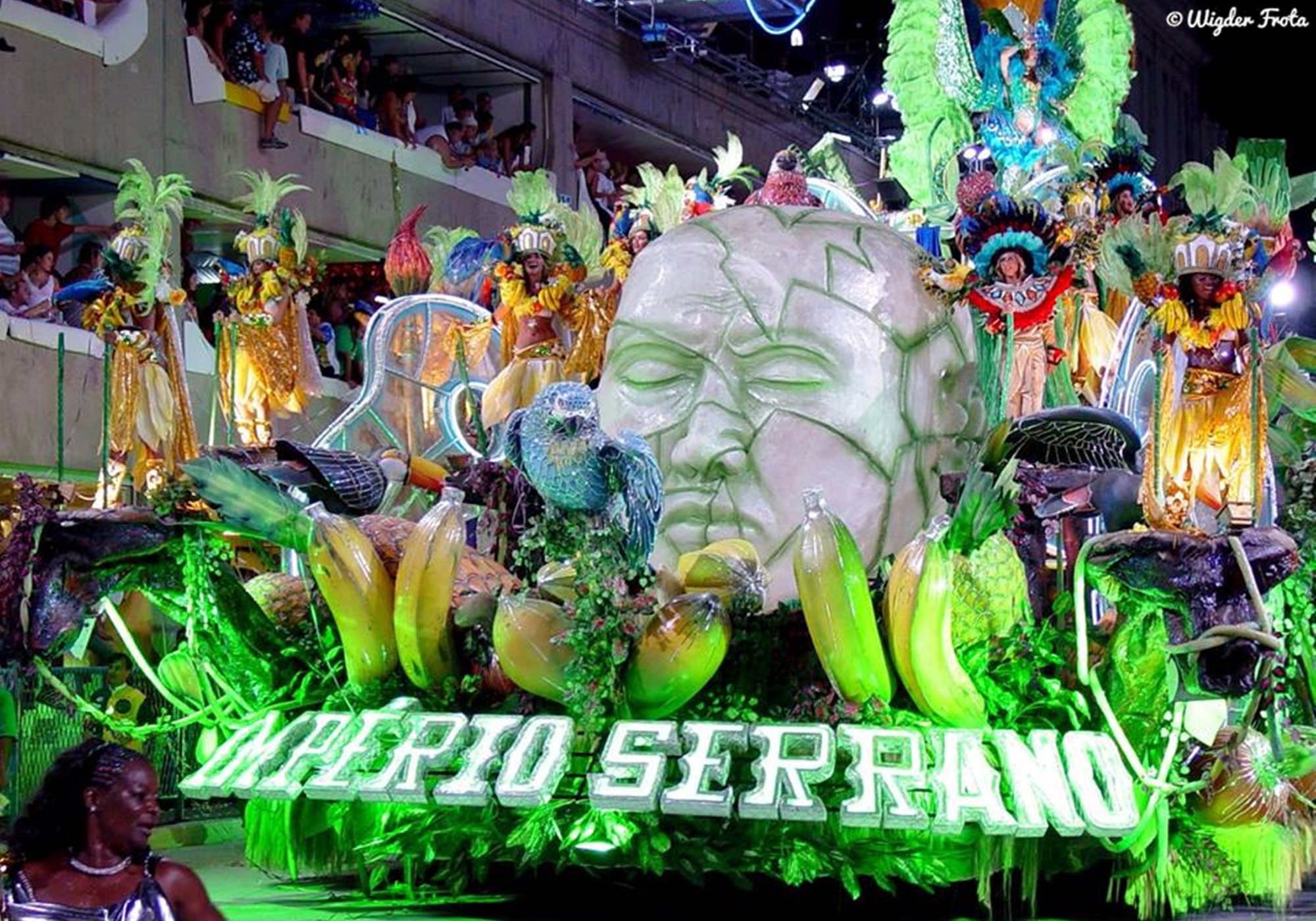 From the Series "Samba Schools, Rio de Janeiro" Carnival 2004 Photo: Wigder Frota